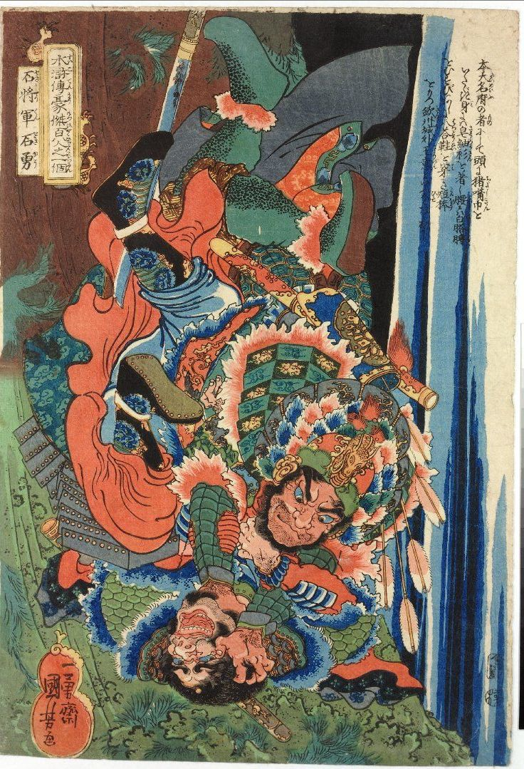 Shi Yong (石勇) attempting to overthrow a retainer of the bandit Horan; a waterfall in the background.